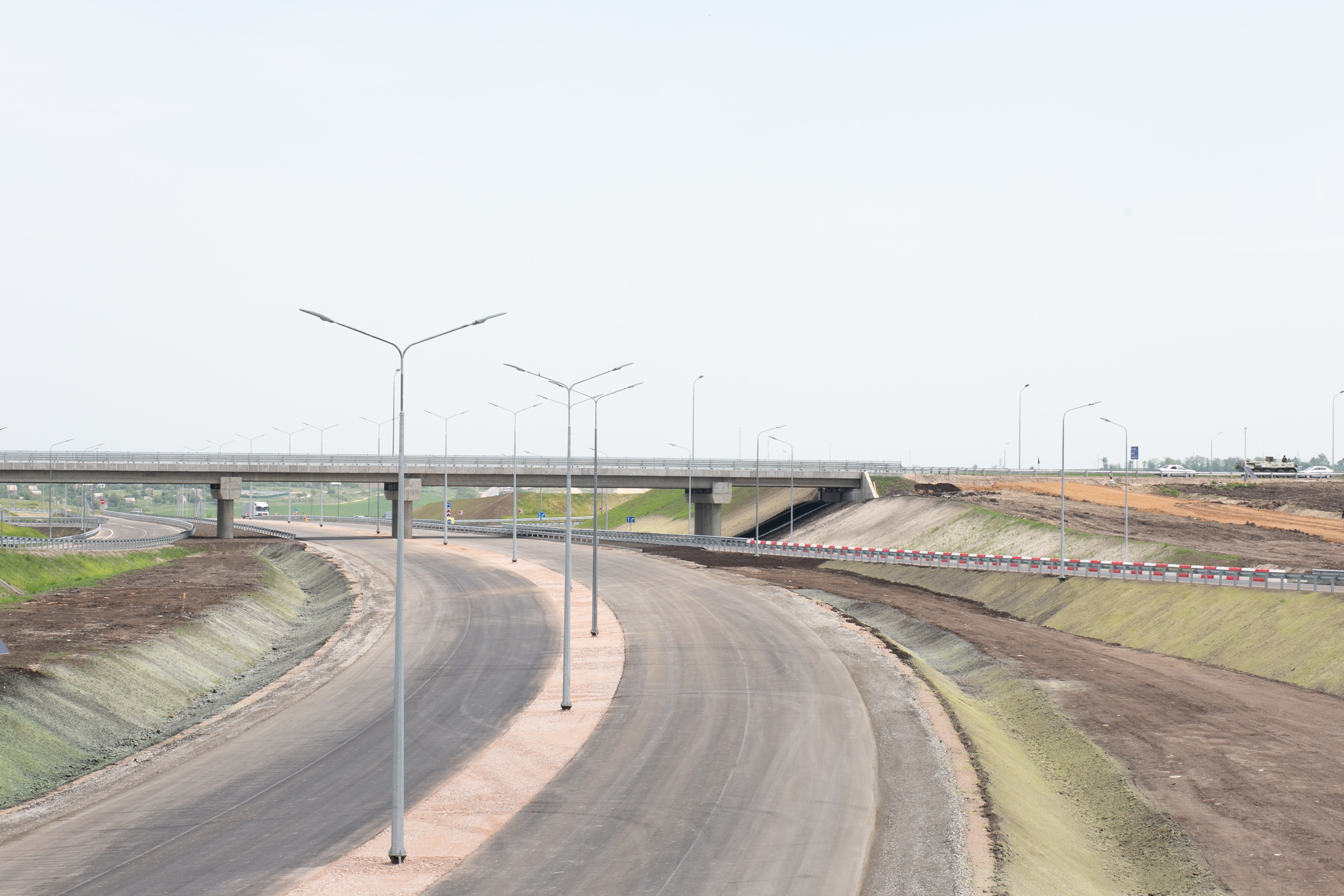 Tavrida Highway